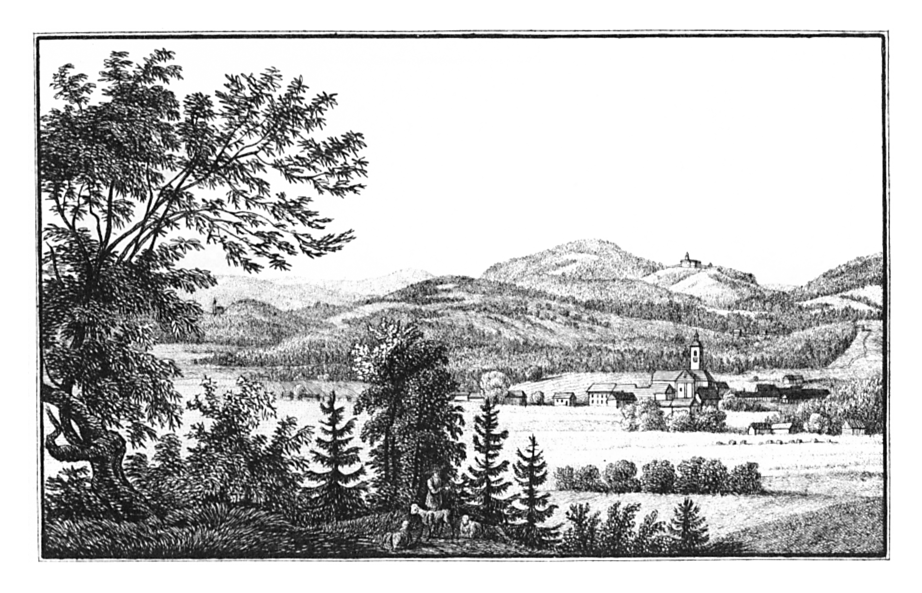 J. F. Kaiser - lithographirte Ansichten der Steyermärkischen Städte, Märkte und Schlösser, Graz 1824-1833 Joseph Franz Kaiser (1786–1859) Alternative names J. F. KaiserDescriptionAustrian printer and editorDate of birth/death 11 March 1786 19 September 1859Location of birth/death Graz (Styria) GrazAuthority control : Q1499963 VIAF: 30629353 ISNI: 0000 0000 3083 0153 LCCN: n87141671 GND: 129880159 NLP: A24960305 WorldCat creator QS:P170,Q1499963 . Scanprojekt Community Projektbudget 2012 This scan or this PDF-file was created within the GLAM-project Bookscanning, supported by Wikimedia Germany and Wikimedia Austria as a part of the community-project to capture books, documents and pictures which are not eligible to copyright or for which the copyright has expired. This document describes or depicts an object which is located in Austria today. Send requests for uncompressed scans to Hubertl. This work is in the public domain in its country of origin and other countries and areas where the copyright term is the author's life plus 100 years or less. You must also include a United States public domain tag to indicate why this work is in the public domain in the United States. This file has been identified as being free of known restrictions under copyright law, including all related and neighboring rights.